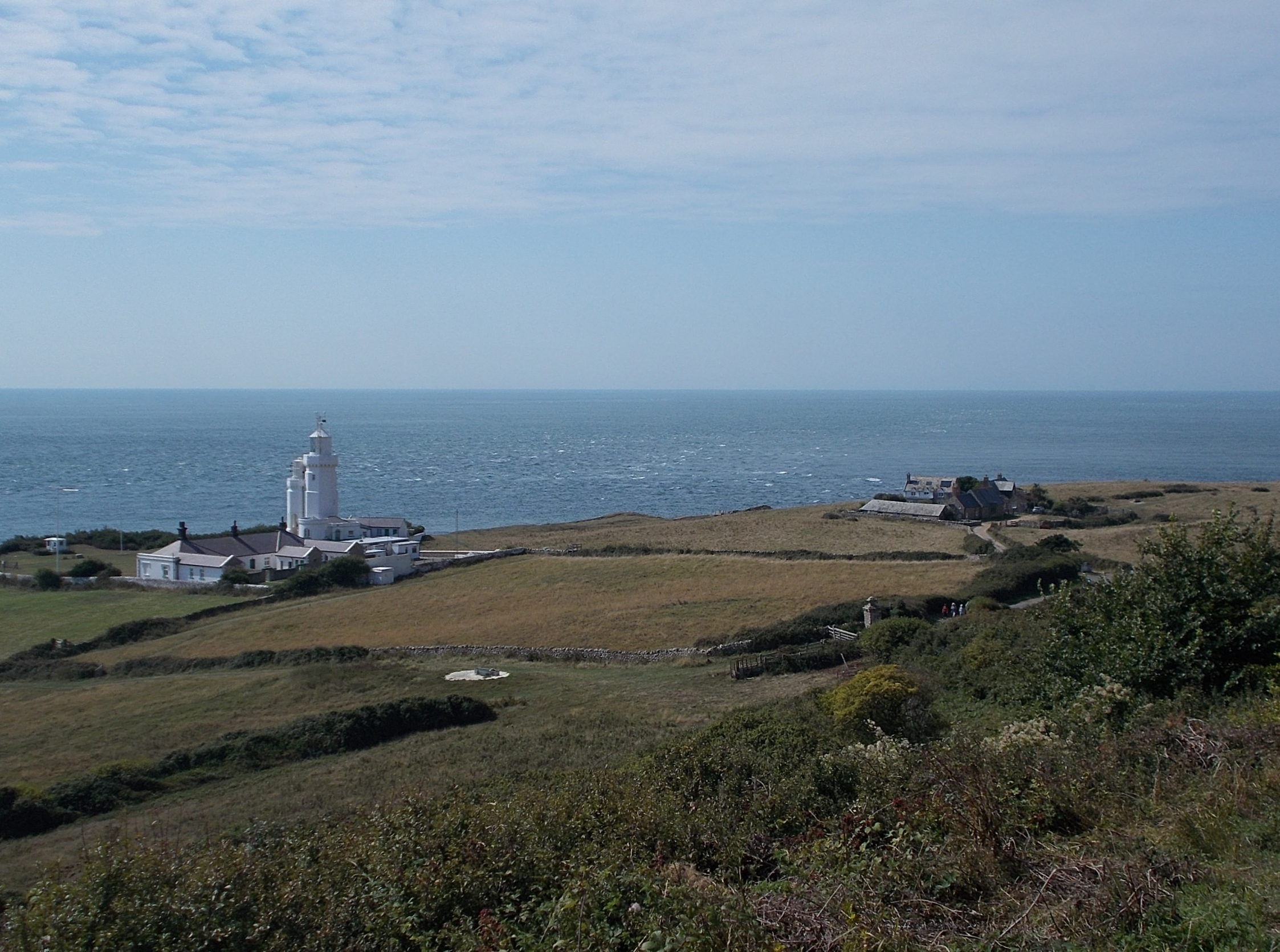 St Catherine's lighthouse at St Catherine's Point, Isle of Wight, UK